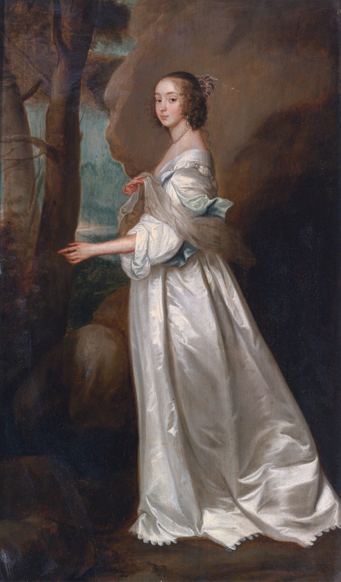 Frances Cranfield, Lady Buckhurst (1622-1687), later Countess of Dorset